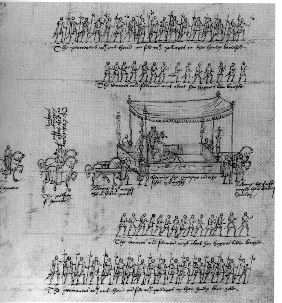 Sketch of coronation procession of Elizabeth I of England, as if seen from above, in bird's perspective. Participants are described in contemporary handwriting.